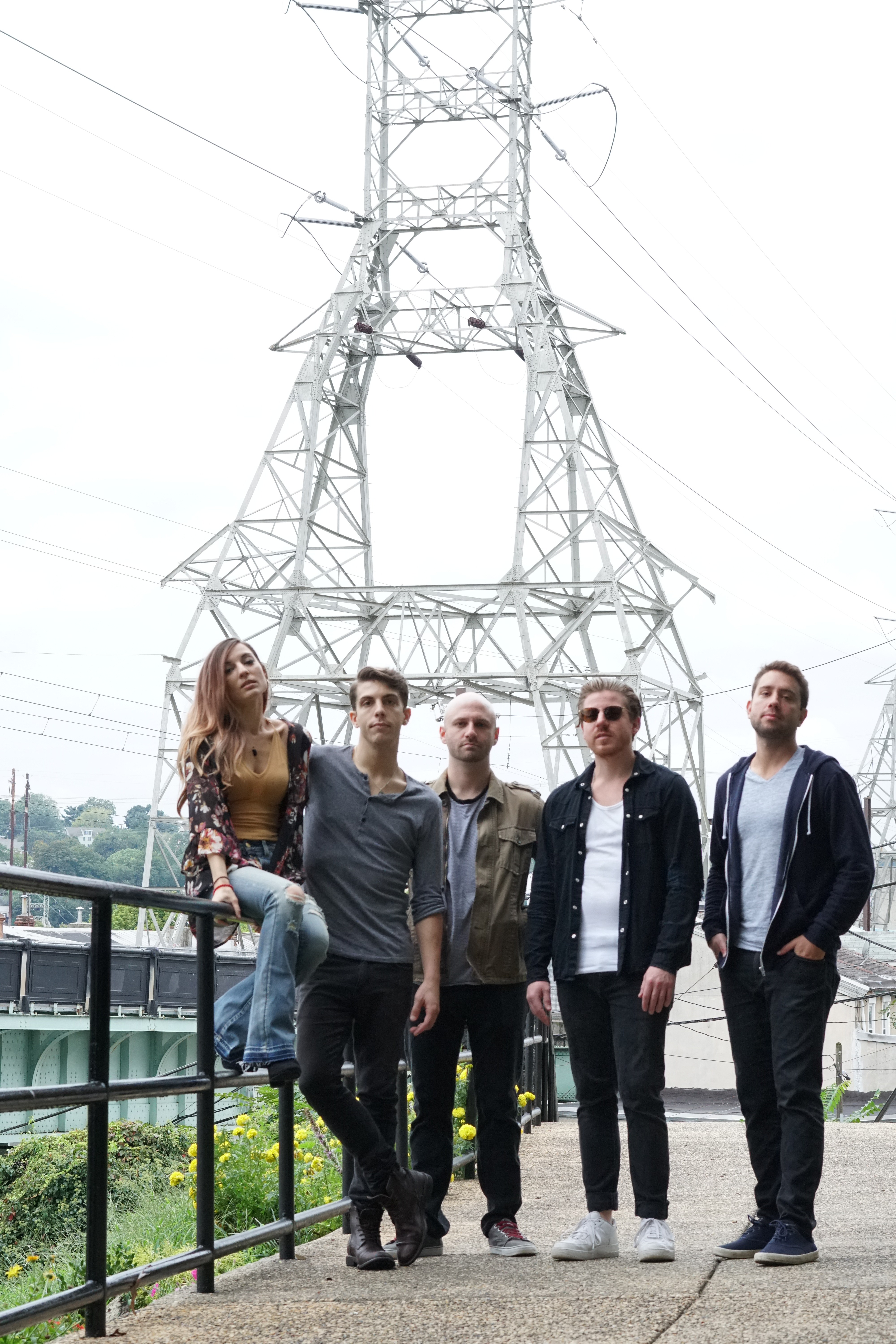 The Fleeting Ends from Left to Right Lauren Davish, Matt Vantine, Jim Ronca, Tim Fergusen, and Andrew Leingang